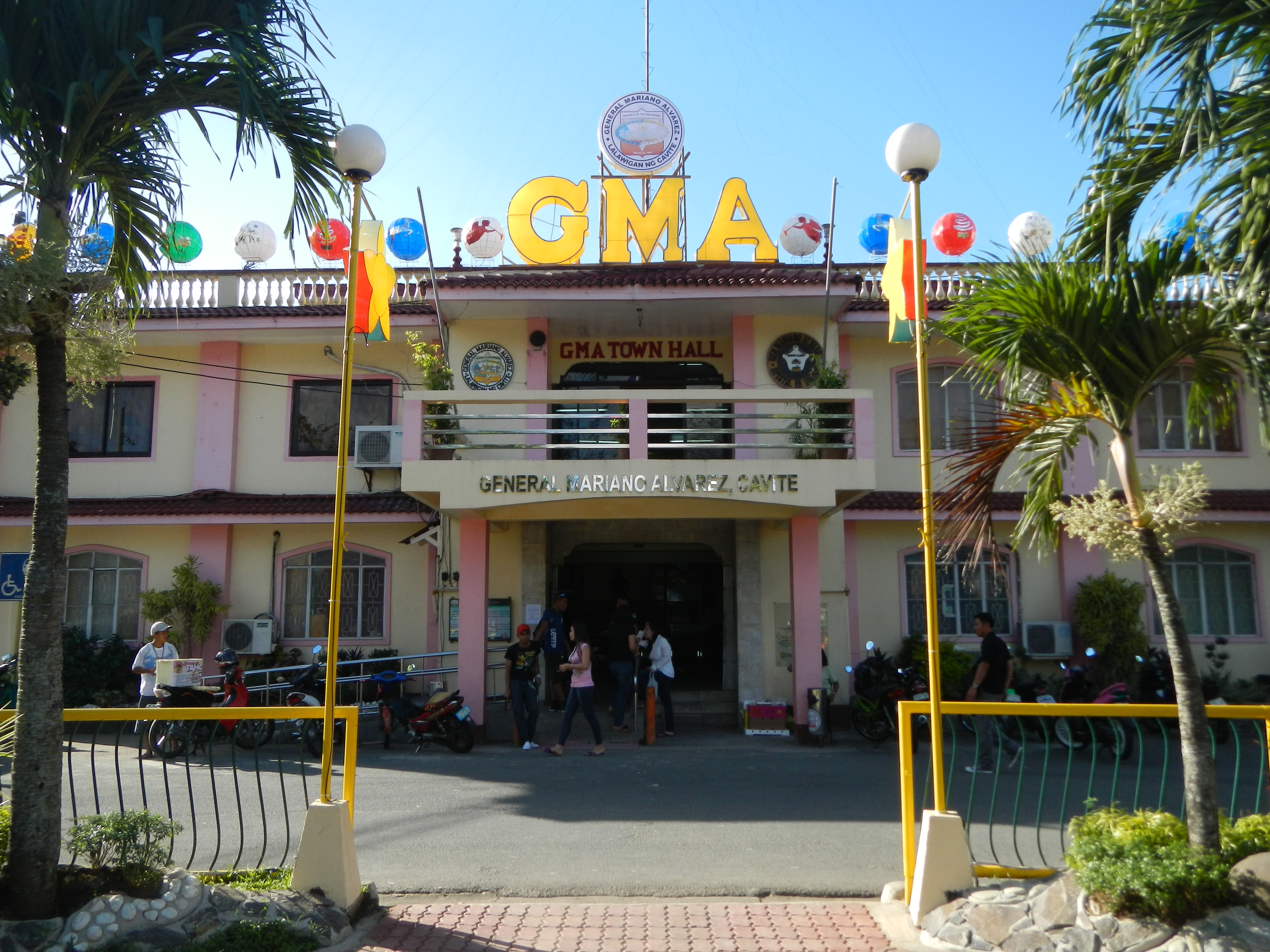 Upload Wizard photos -- (General description, 3-dimension angle by angle photography of this town, church & landmarks) -- General Mariano Alvarez, Cavite Municipal Hall Complex[1] (an urban municipality in the province of Cavite, Philippines; 2010 census, it has a population of 138,540 people in an area of just 11.40 square kilometers, named after General Mariano Álvarez[2], a native of the town of Noveleta, Cavite; with 27 barangays, with its University of Perpetual Help System JONELTA - GMA Campus [3]) - GMA area, that is, Poblacion I and 2, Town Proper, downtown, centro, along the GMA National Road Website, General Mariano Alvarez Town Hall, including at the center thereof, are the Flag and Monument of the town hero, in the Plaza, Park and beside is the GMA Police Station, along the so-called GMA Area, GMA Public Market; (the capture of the Noveleta Tribunal on August 31, 1896 was led by Mariano Alvarez,[4] [5] Santiago V. Alvarez (1872-1930) Hero of the Battle of Dalahican - founder and president of the Sangguniang Bayan Magdiwang [6]).